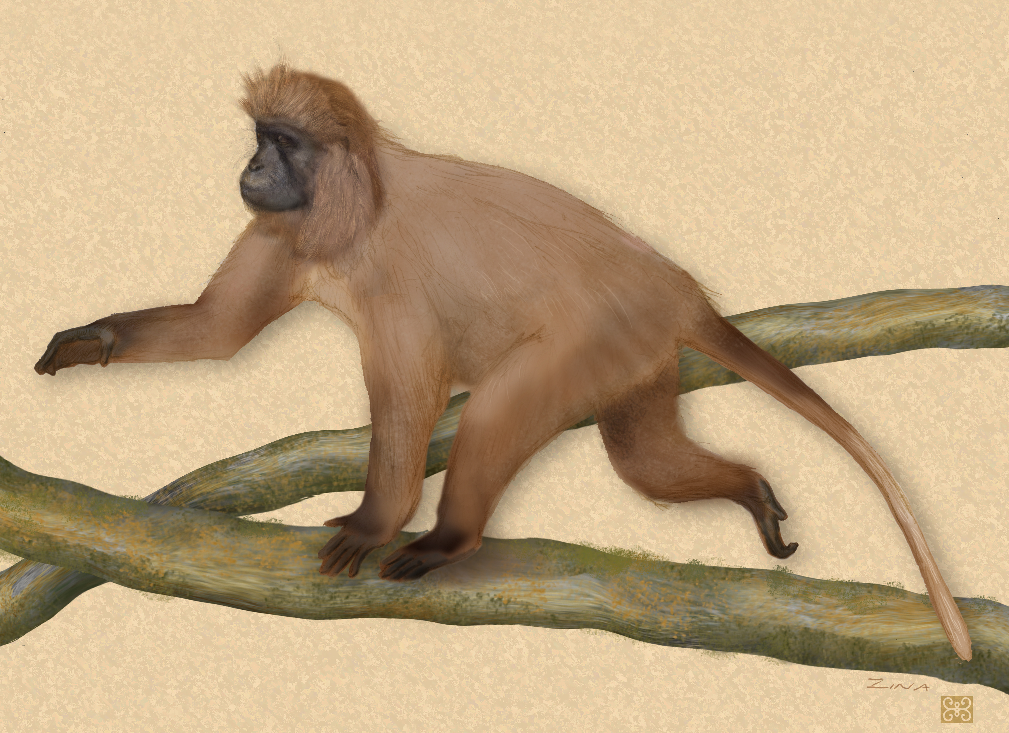 Full-body view of Lophocebus kipunji (Ehardt et al. 2005 sp. nov.). Note the animal's long fur, coat color, lighter area on chest and distal tail and characteristic tail carriage. The artist's reconstruction was drawn from research video taken by C. L. Ehardt in Tanzania in the Ndundulu Forest of the Udzungwa Mountains and in the Southern Highlands.